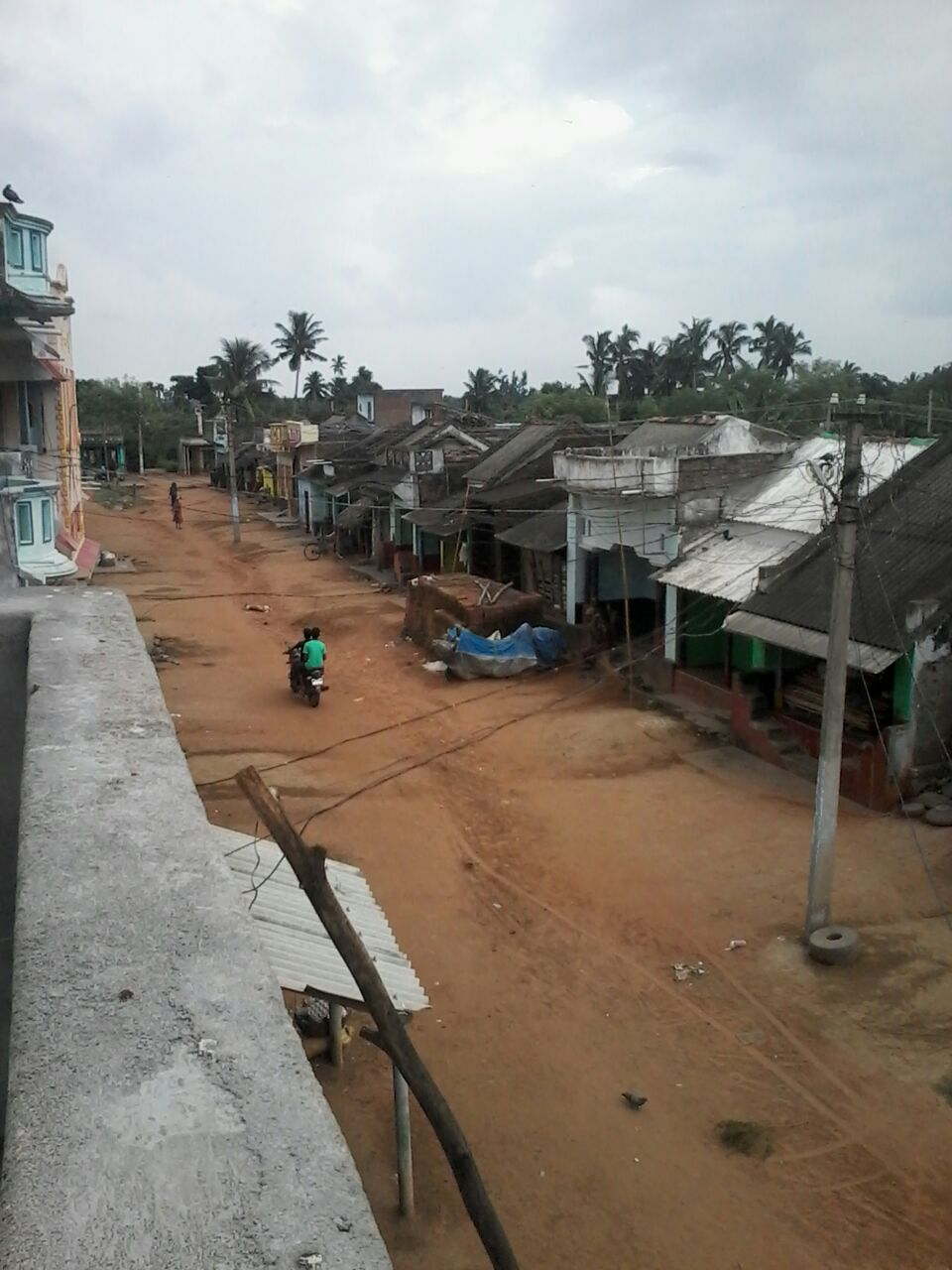 Bahadur Pentho Village street of Front.